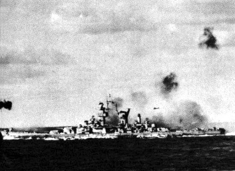 The U.S. Navy battlecruiser USS Alaska (CB-1) during an air attack.